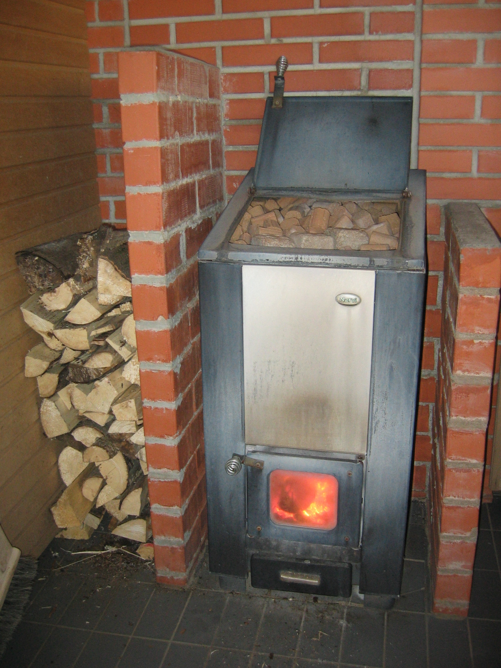 A wood-heated sauna stove, manufactured by Narvi, Finland.